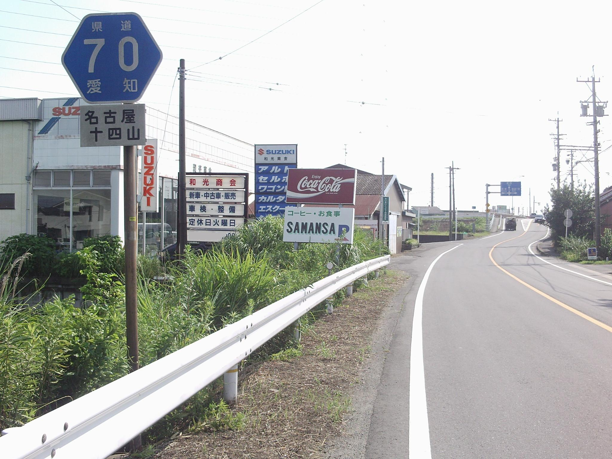 Aichi prefectural road No.70 in Takeda 3-chome, Yatomi, Aichi.